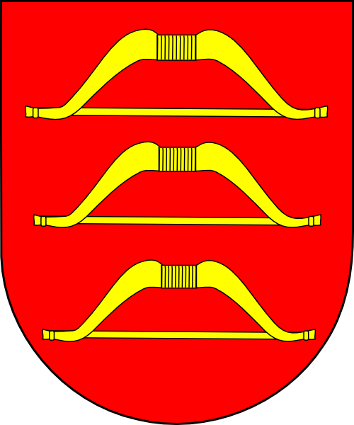 Coat of arms (shield only) of Adam Joseph Arco, bishop of Hradec Králové, Czech Republic (1776 - 1780), bishop of Seckau, Austria (1780 - 1802). Identical with family coat of arms.